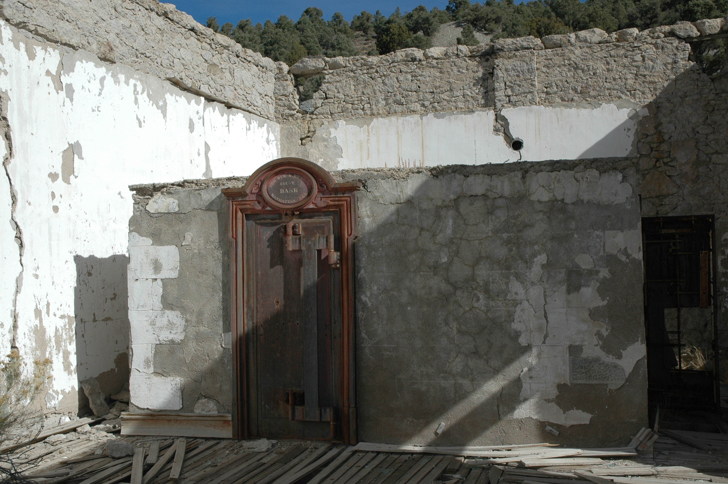 Ruins of old bank building in Manhattan, Nevada.